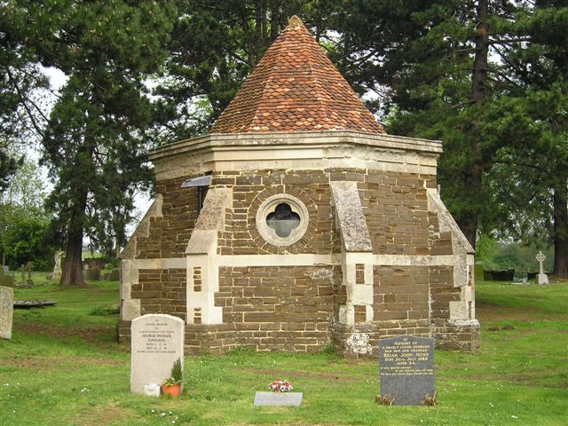 Ailesbury Mausoleum, St Marys Church, Maulden, Bedfordshire. Created by Theone00 17:44, 25 October 2006 (UTC)